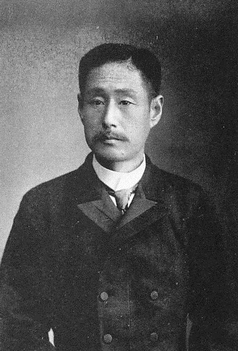 Munenobu Date